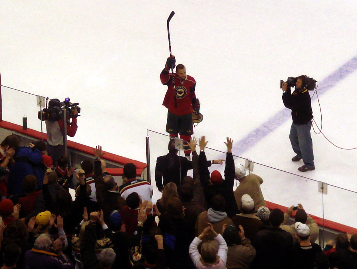 The Minnesota Wild's Marián Gáborík waving to the crowd after his famous December 20, 2007 game against the New York Rangers where he scored five goals and had one assist, making him the first players since to score five or more goals since Sergei Fedorov on December 26, 1996. The Wild won, 6–3.